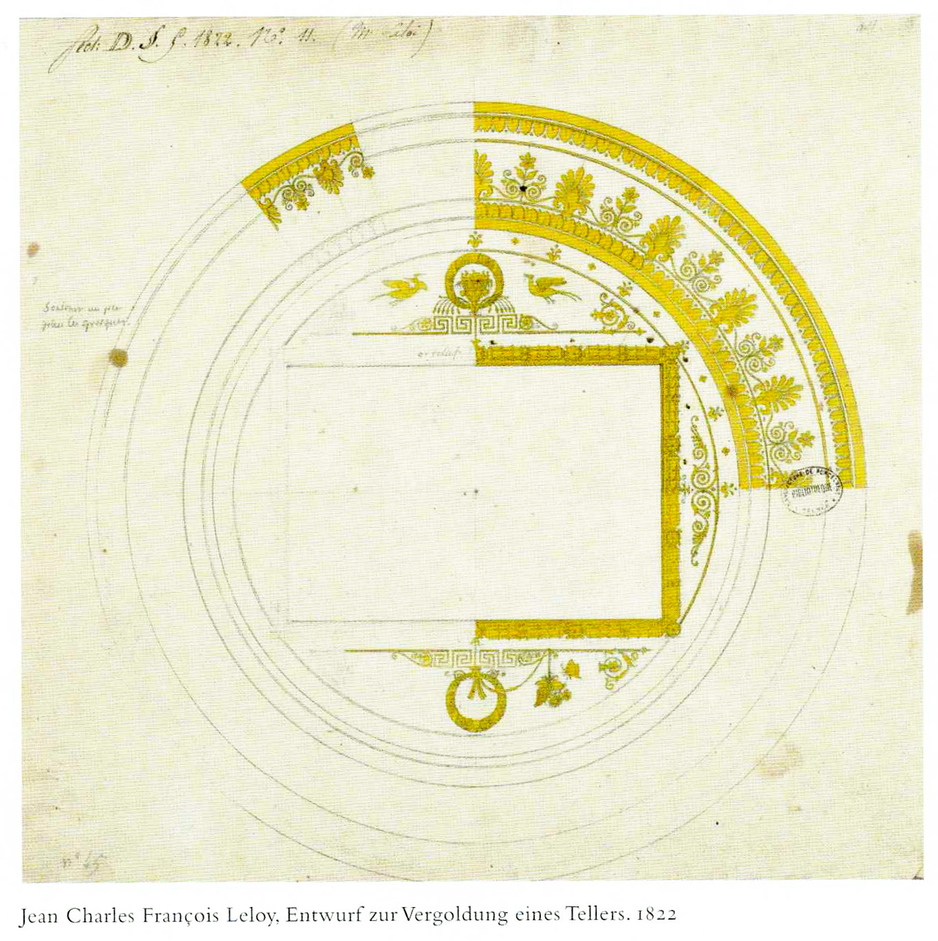 Example of a template for decor from the manufactory of Sèvre